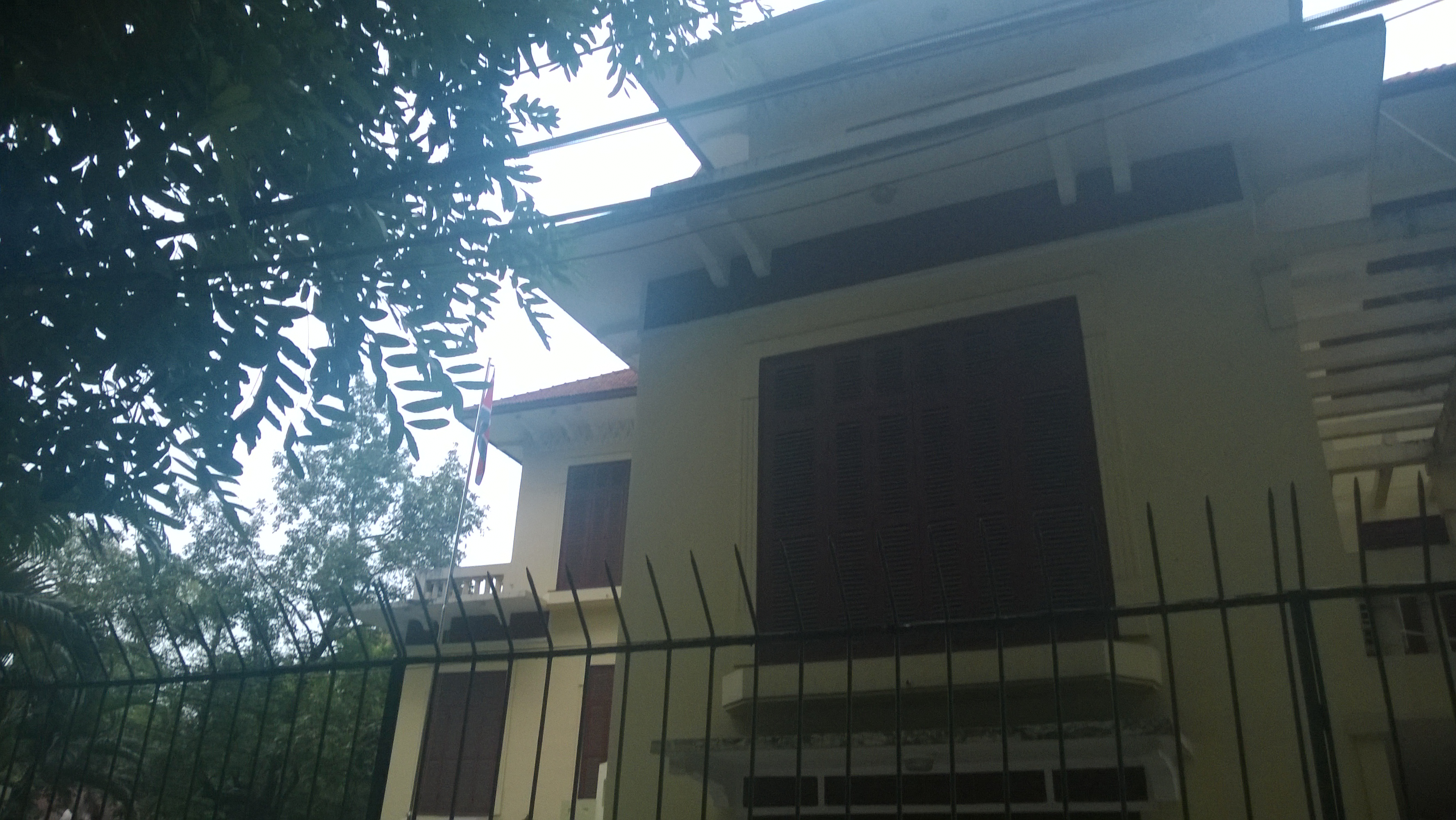 The North-Korean embassy in Hanoi in 2014.